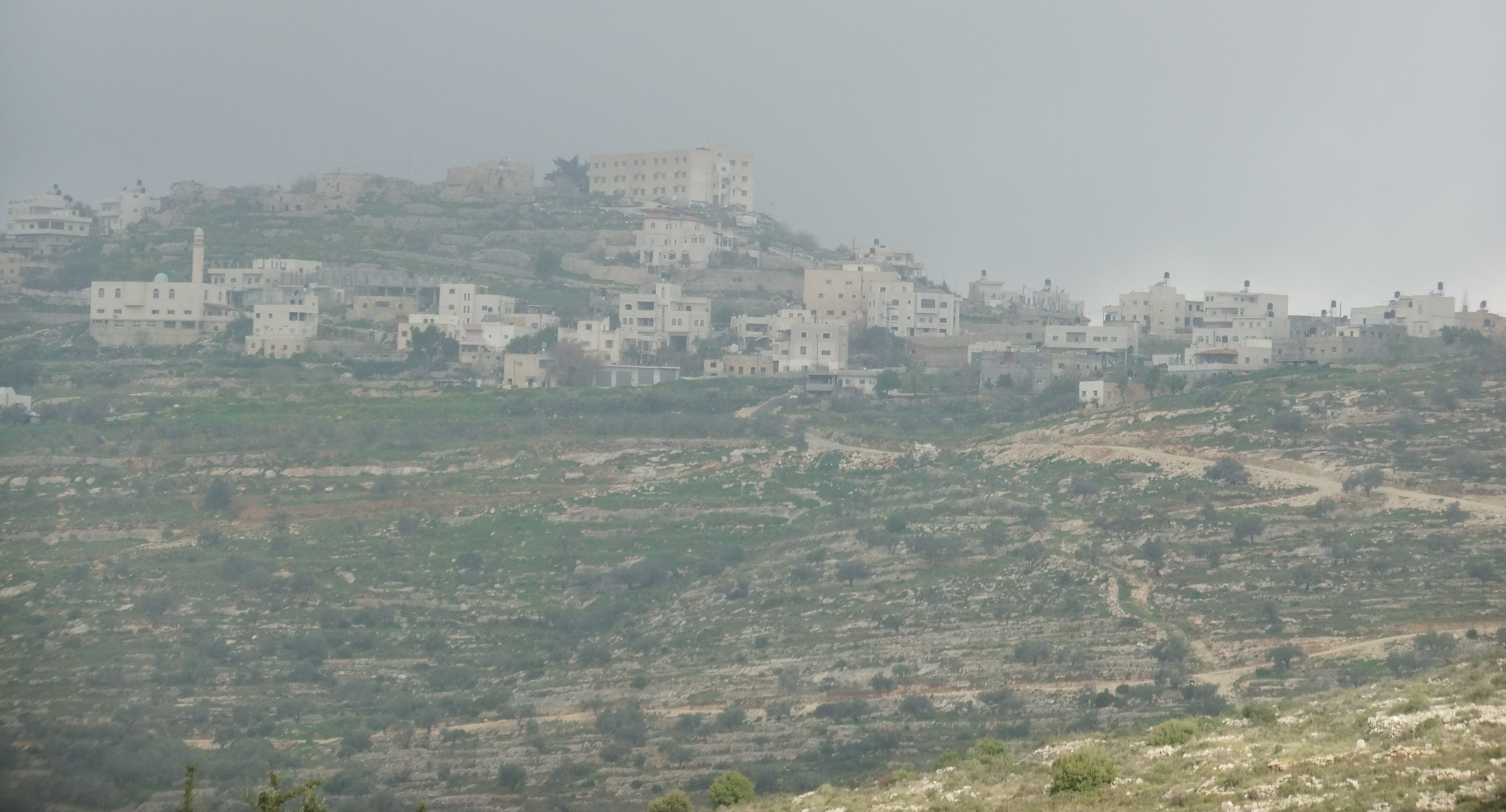 Deir 'Ammar